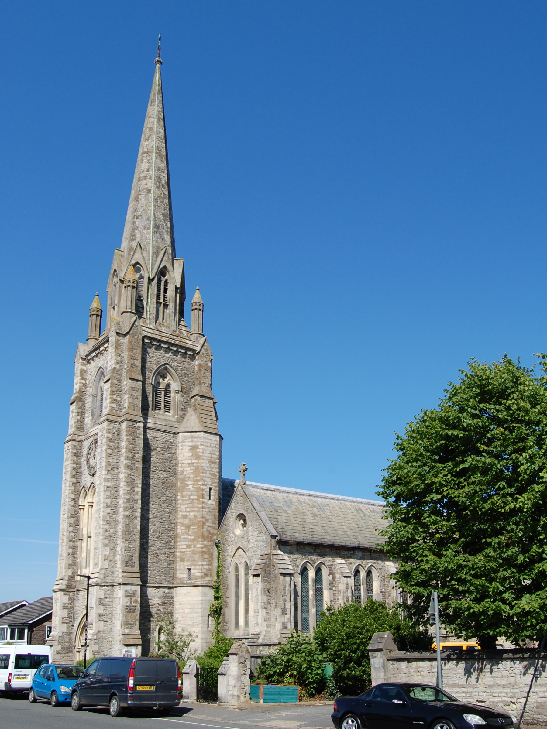 The former Holy Trinity Church, Dover Street, Ryde, Isle of Wight, England. Designed in 1841–46 by local architect Thomas Hellyer. The spire is a landmark for miles around.